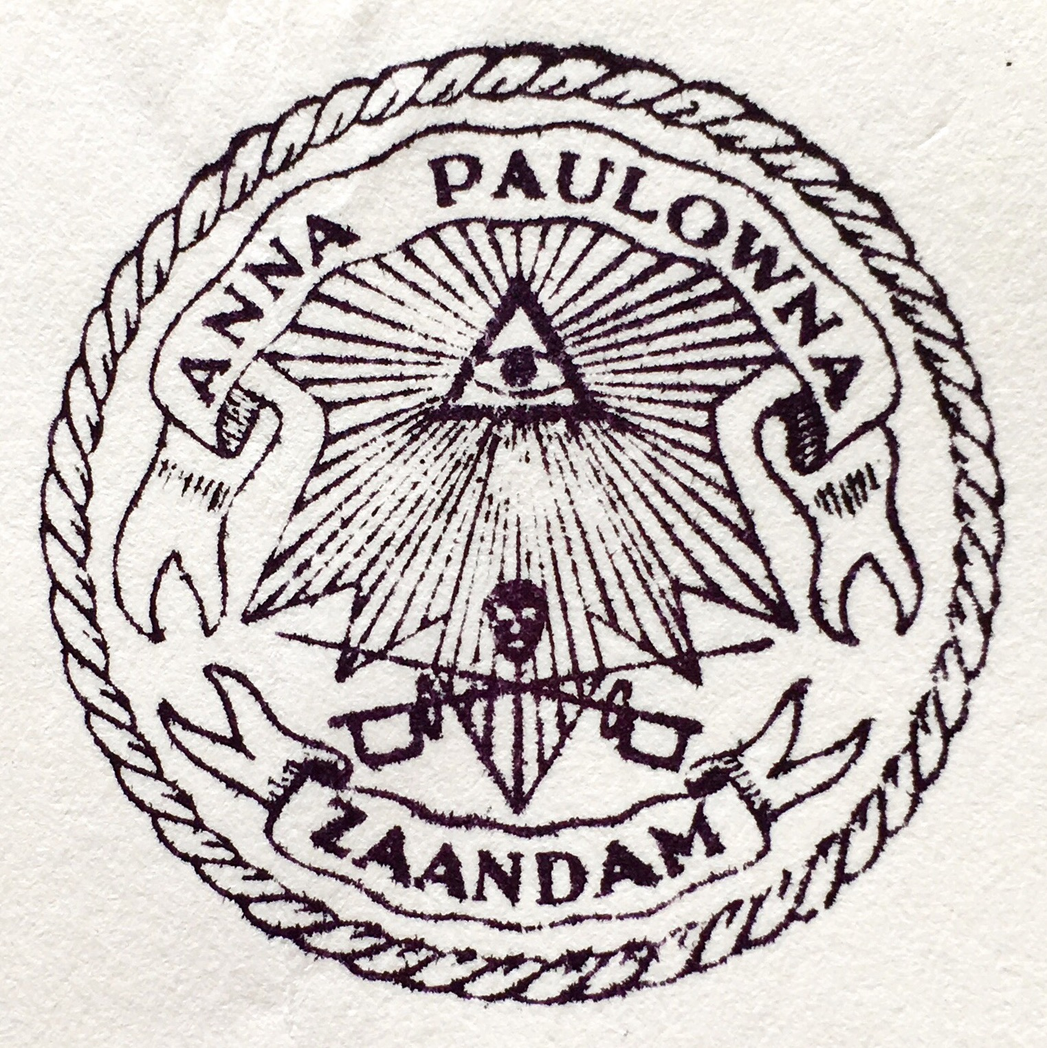 Seal of a Dutch Masonic Lodge